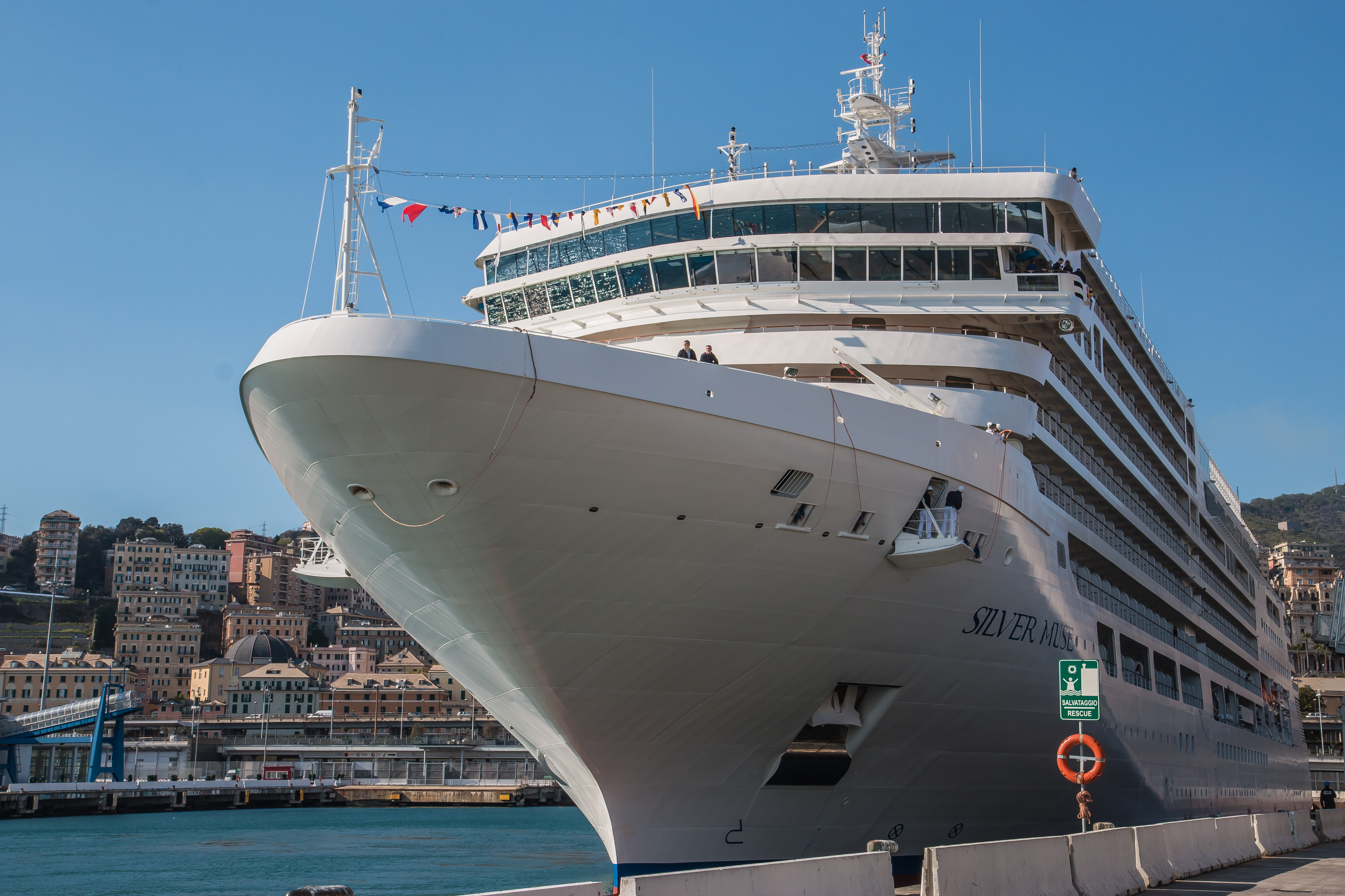 Takenon the shakeout cruise from Genoa on the Silversea Silver Muse in April 2017. For more visit my site